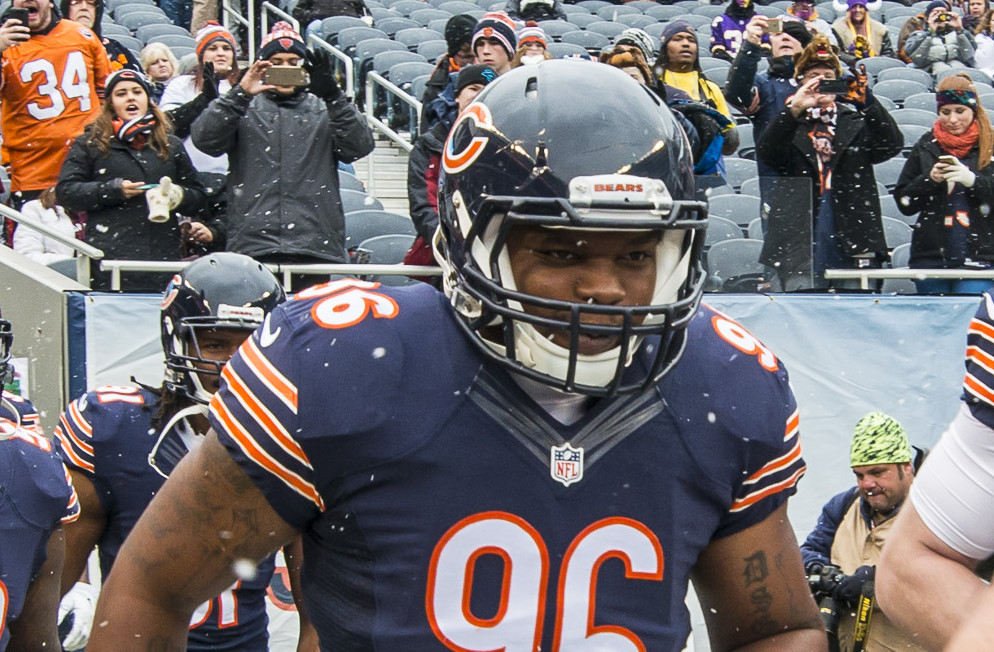 Chicago Bears linebacker, DeDe Lattimore, in a game against the Minnesota Vikings on November 16, 2014.